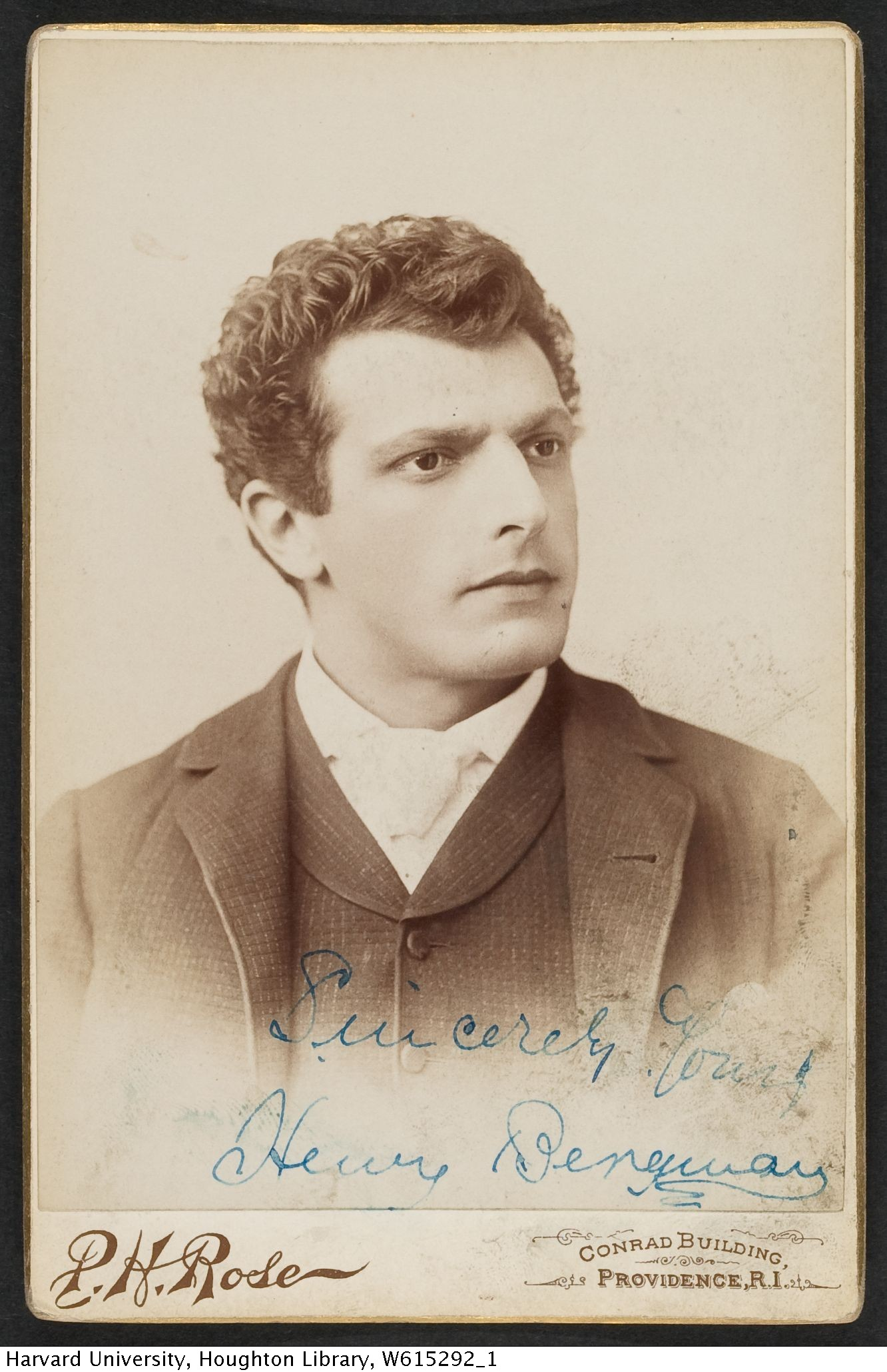 Cabinet card image of silent film actor Henry Bergman. Includes Bergman's signature. TCS 1.2389, Harvard Theatre Collection, Harvard University